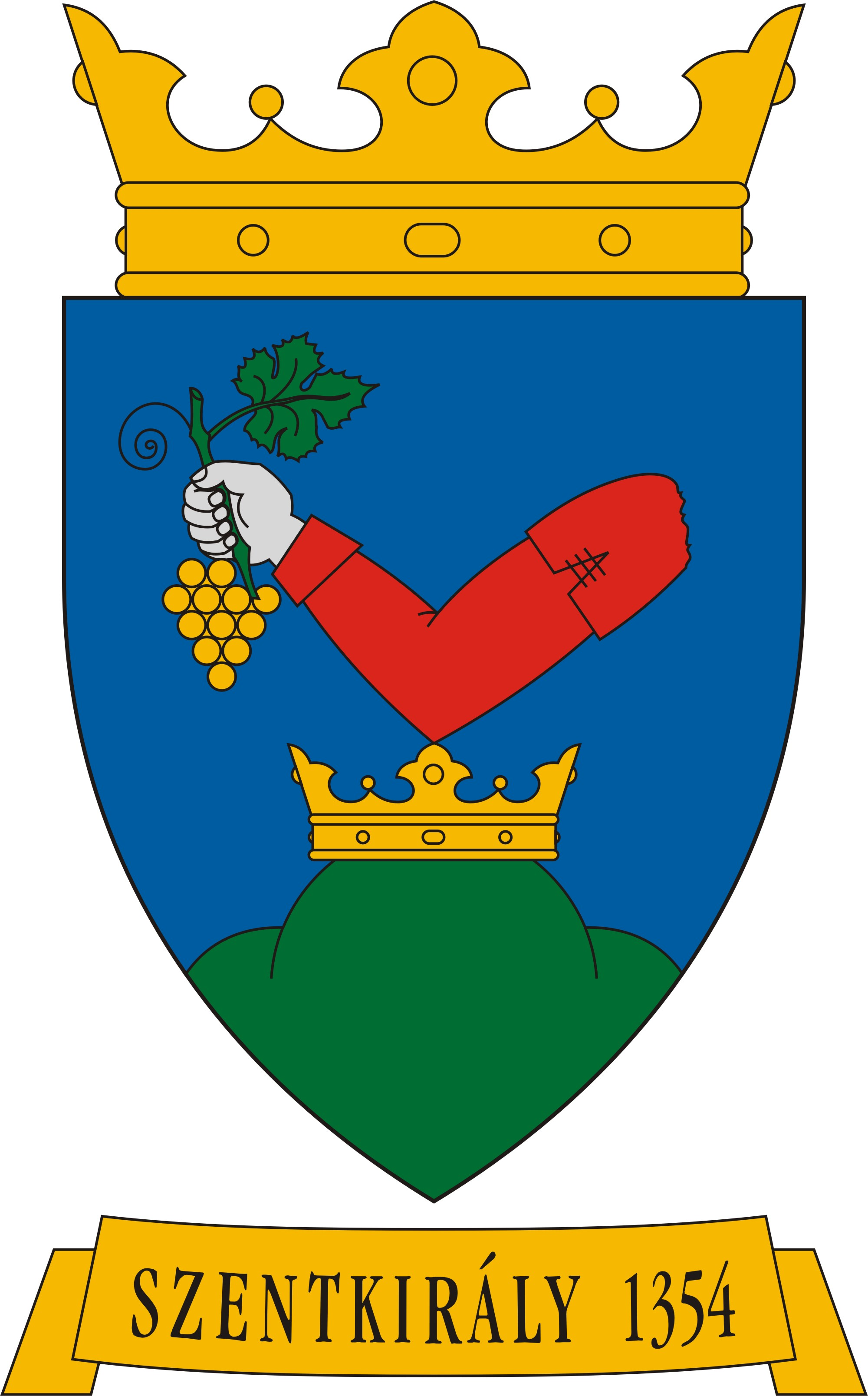 Coat of arms of Szentkirály, Hungary